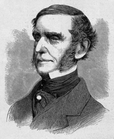 Stanberry AttorGen